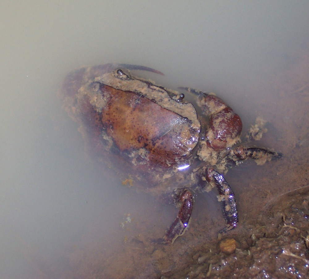 Paddyfield's crab, Parathelphusa convexa, in it's habitat in Bogor, West Java